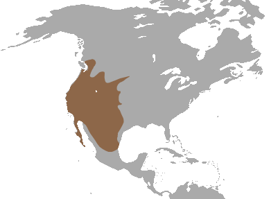 Western Spotted Skunk (Spilogale gracilis) range